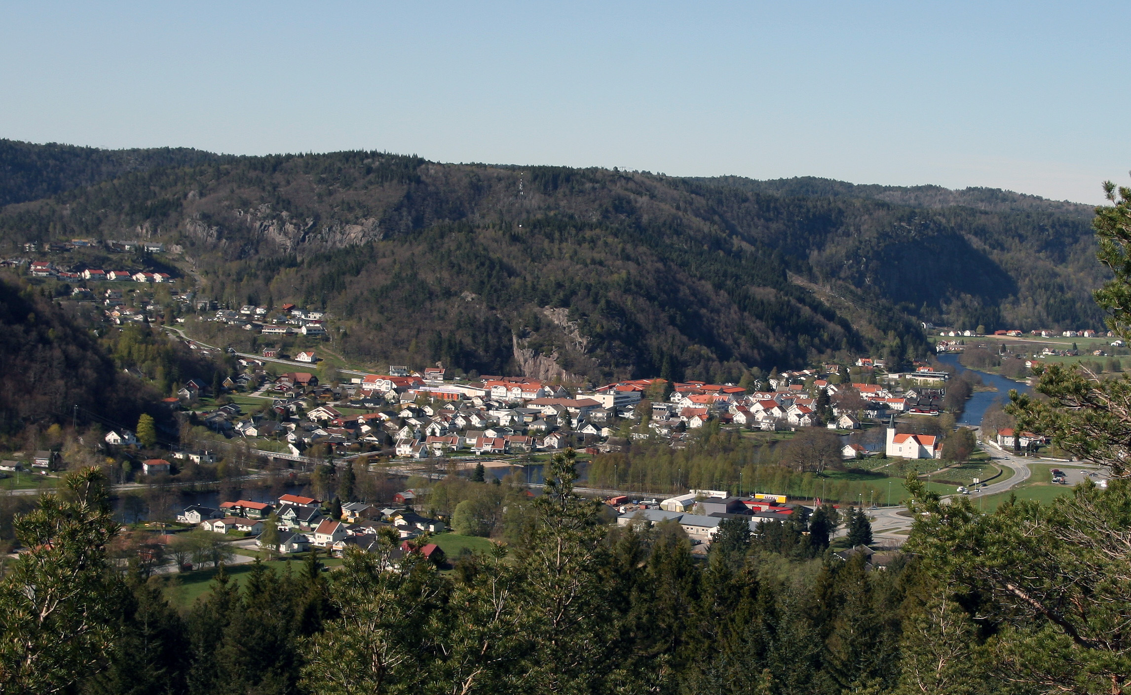 Vigeland in Lindesnes, Vest-Agder, Norway.